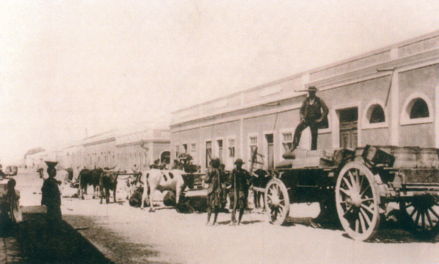 A Boer transport wagon in the streets of Moçâmedes